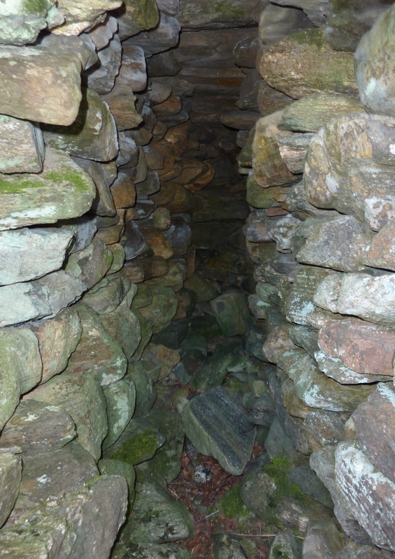 Dun Grugaig, Lochalsh, Highland, Scotland - interior of gallery in south wall